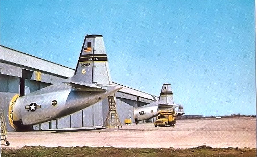 Dover Air Force Base - MATS C-133 Cargomaster Hangars